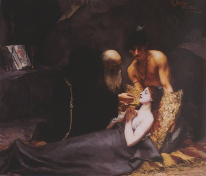 Death of Atala (1883) Rodolpho Amoedo, Brazilian painter.